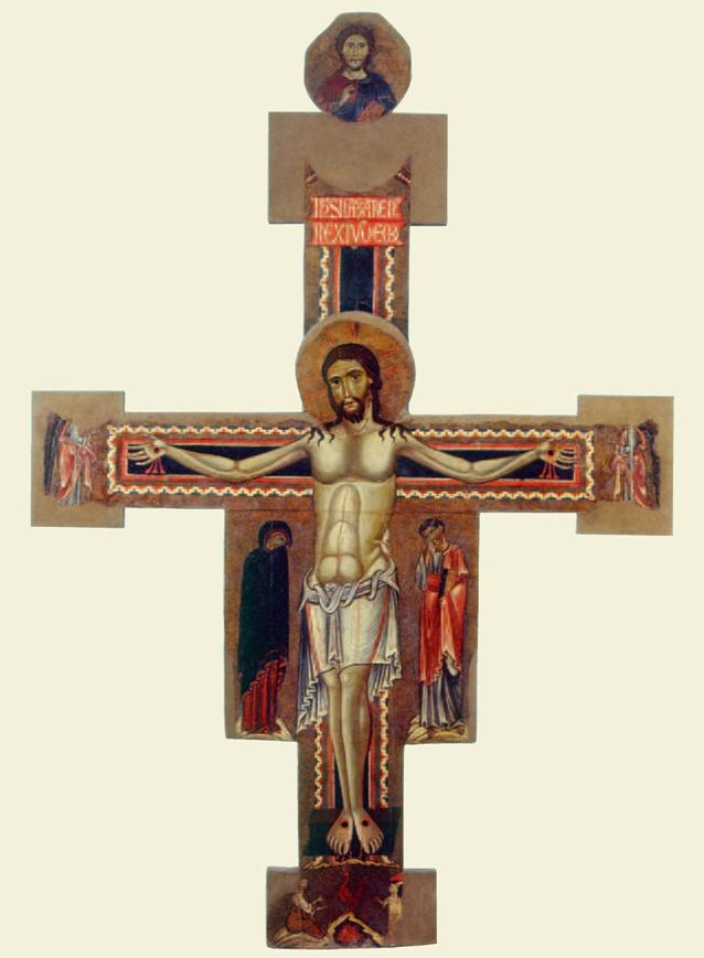 Margaritone d'Arezzo, Painted cross from Santa Maria delle Pieve,Arezzo, Museo Nazionale d’arte medievale e moderna